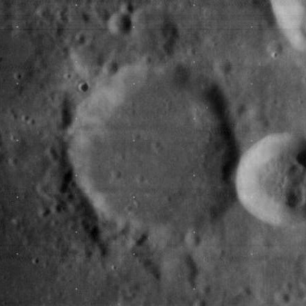 Hooke crater, on the moon. Brightness and contrast adjusted from original.